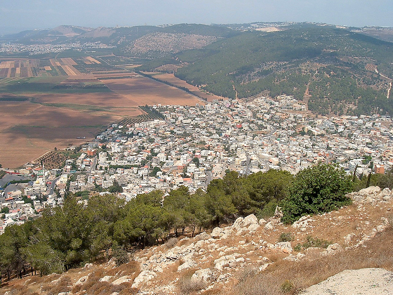 View of the Arab town of Daburiyya from Mt. Tabor with the Jezreel Plain in the background